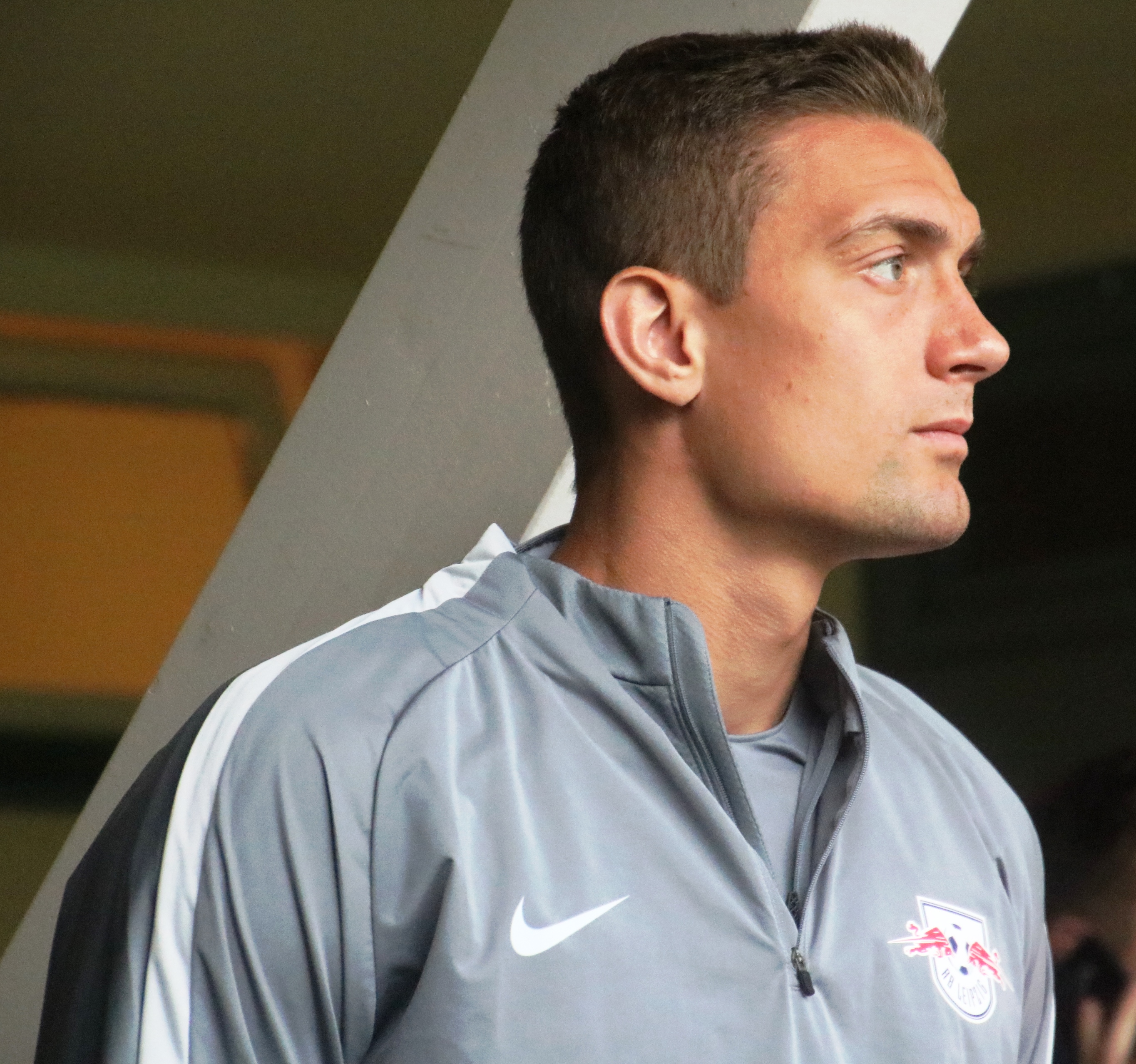 friendly match